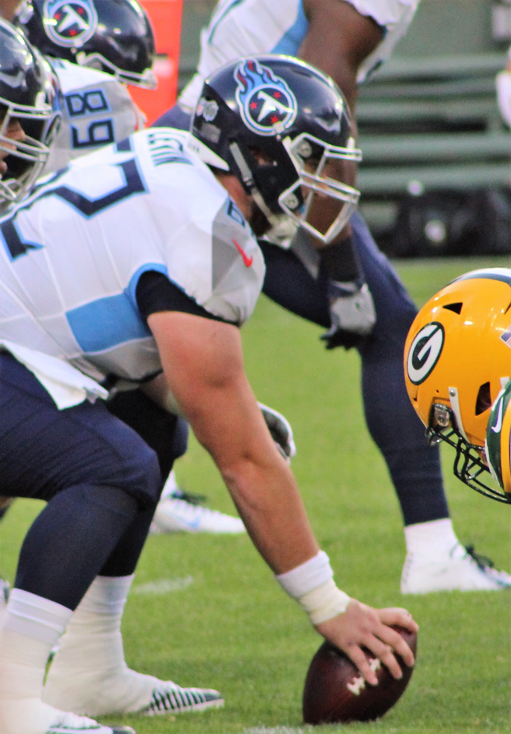 Corey Levin, Tennessee Titans at Green Bay Packers (Preseason), August 9, 2018